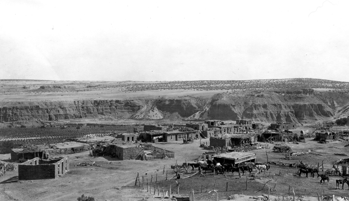 Moenkopi village, Moenkopi Wash, Coconino County, Echo Cliffs quadrangle. August, 1914. Digital File:ghe00277 ID. Gregory, H.E. 277 Original found at [1] using keywords "Moenkopi" and "Wash." File uploaded for use in article "Moenkopi Formation."